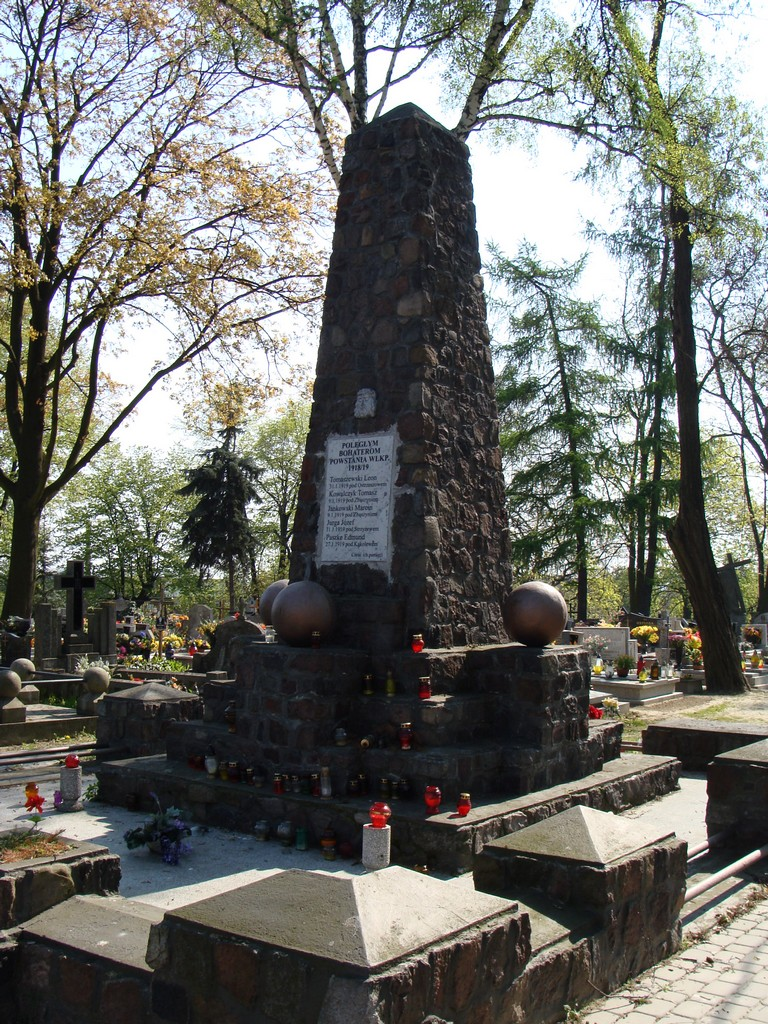 Śrem, Górczyn, cemetery, monument of Insurgents of Greater Poland.